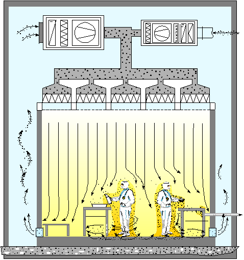 Air Flow principle for unidirectional (laminar) flow Cleanrooms